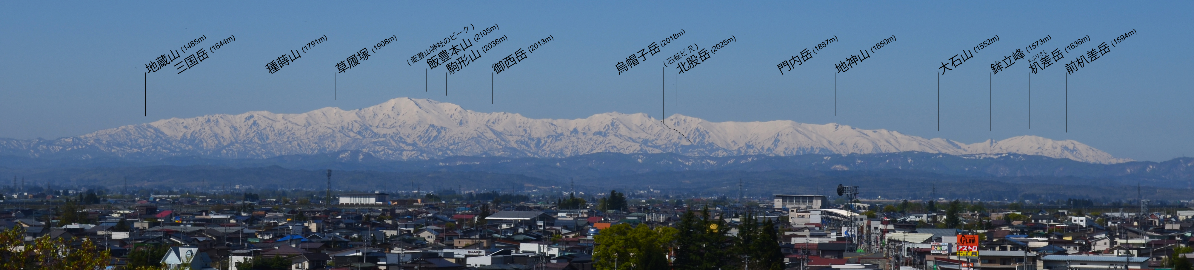 Iide Mountains as seen from Nanyo City, Yamagata Prefecture